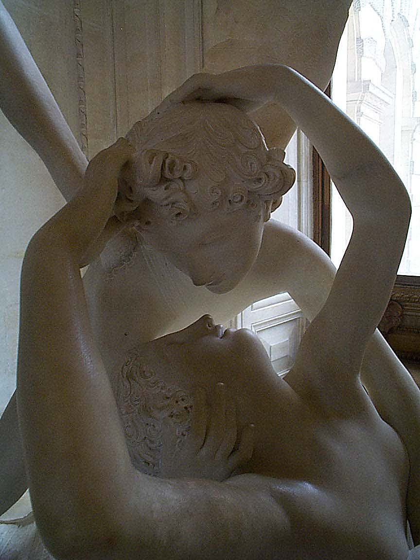 Psyché ranimée par le baiser de l'Amour (Psyche revived by the kiss of Love). Marble, 1793.